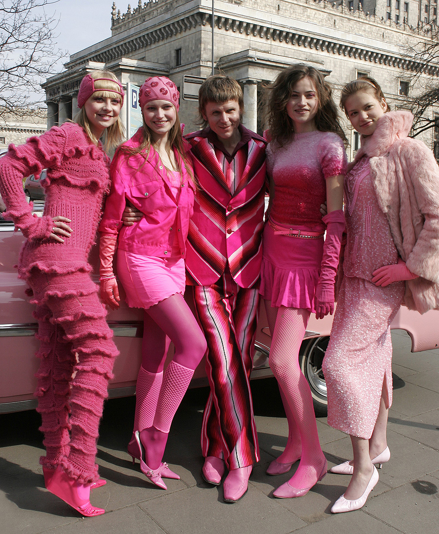 Maurycy Gomulicki (b. 1969), Polish painter and performer